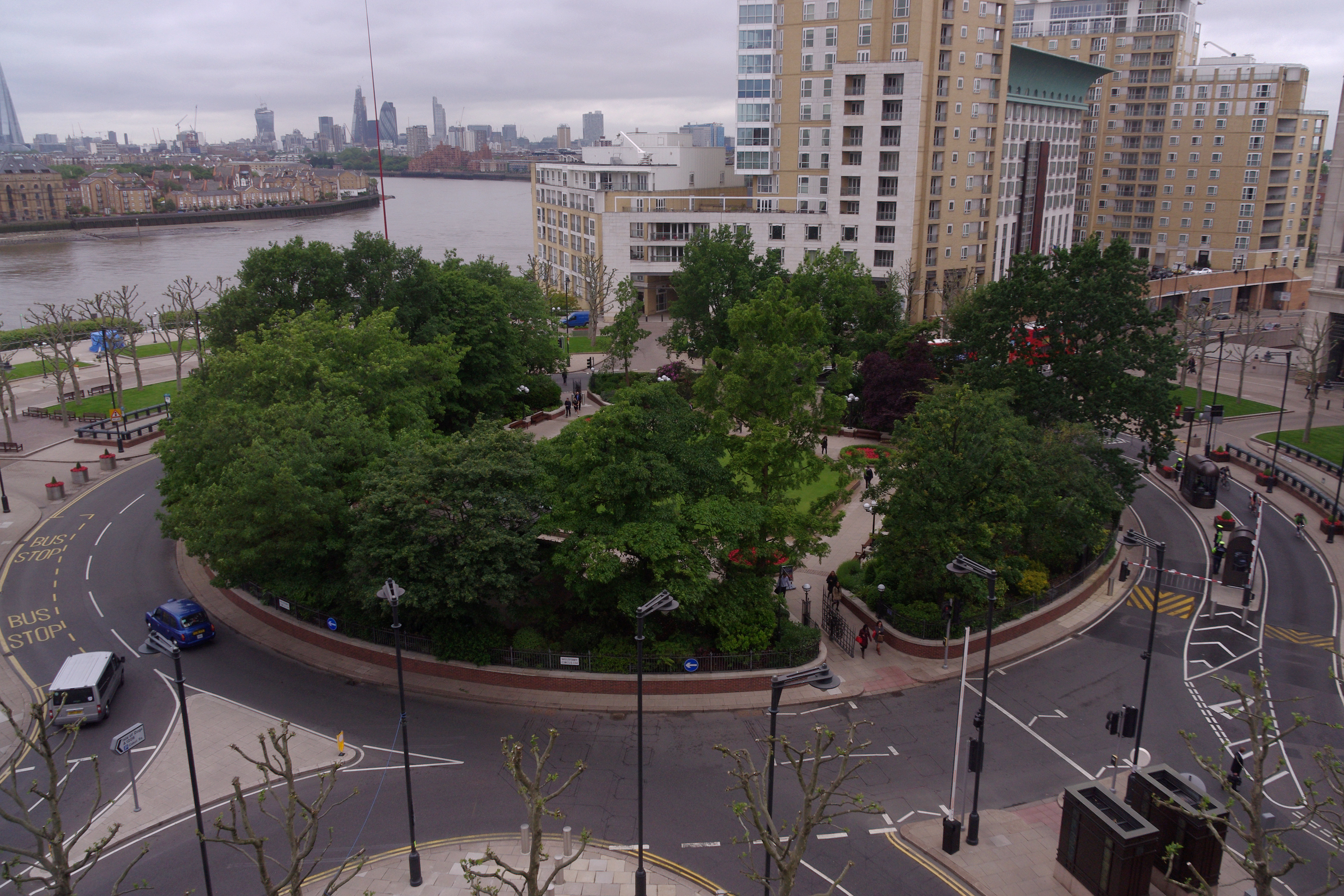 The Westferry Circus roundabout, seen from the 5th floor of 15 Westferry Circus.